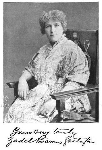 Photographic portrait of American writer Zadel Barnes Gustafson (1841-1917), with replicated signature. From The Magazine of Poetry and Literary Review, vol. III (July 1891): p. 302.